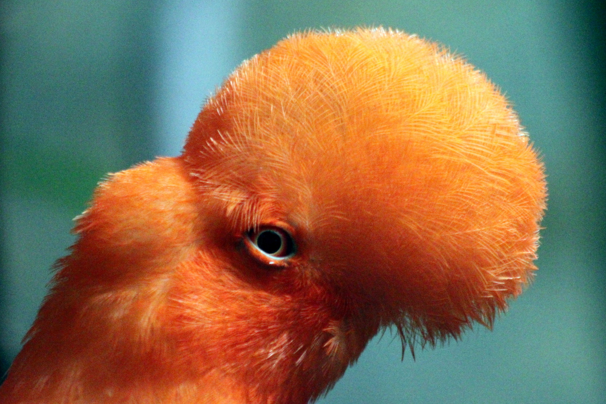 Rupicola sp.